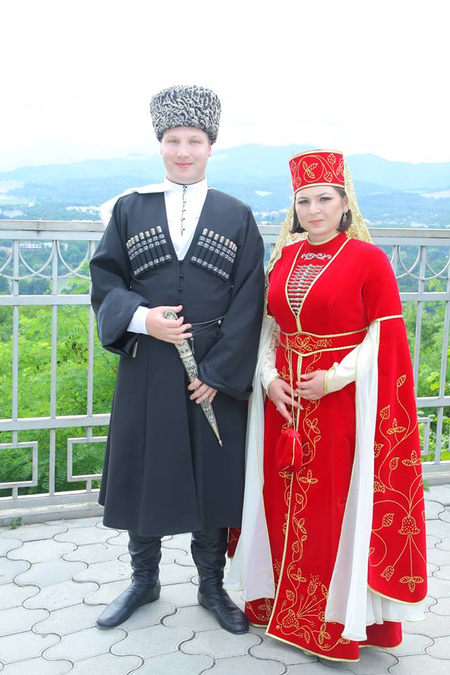 Traditional Adyghe costumes for men and women.